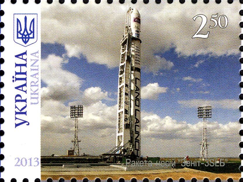 Stamps of Ukraine, 2013